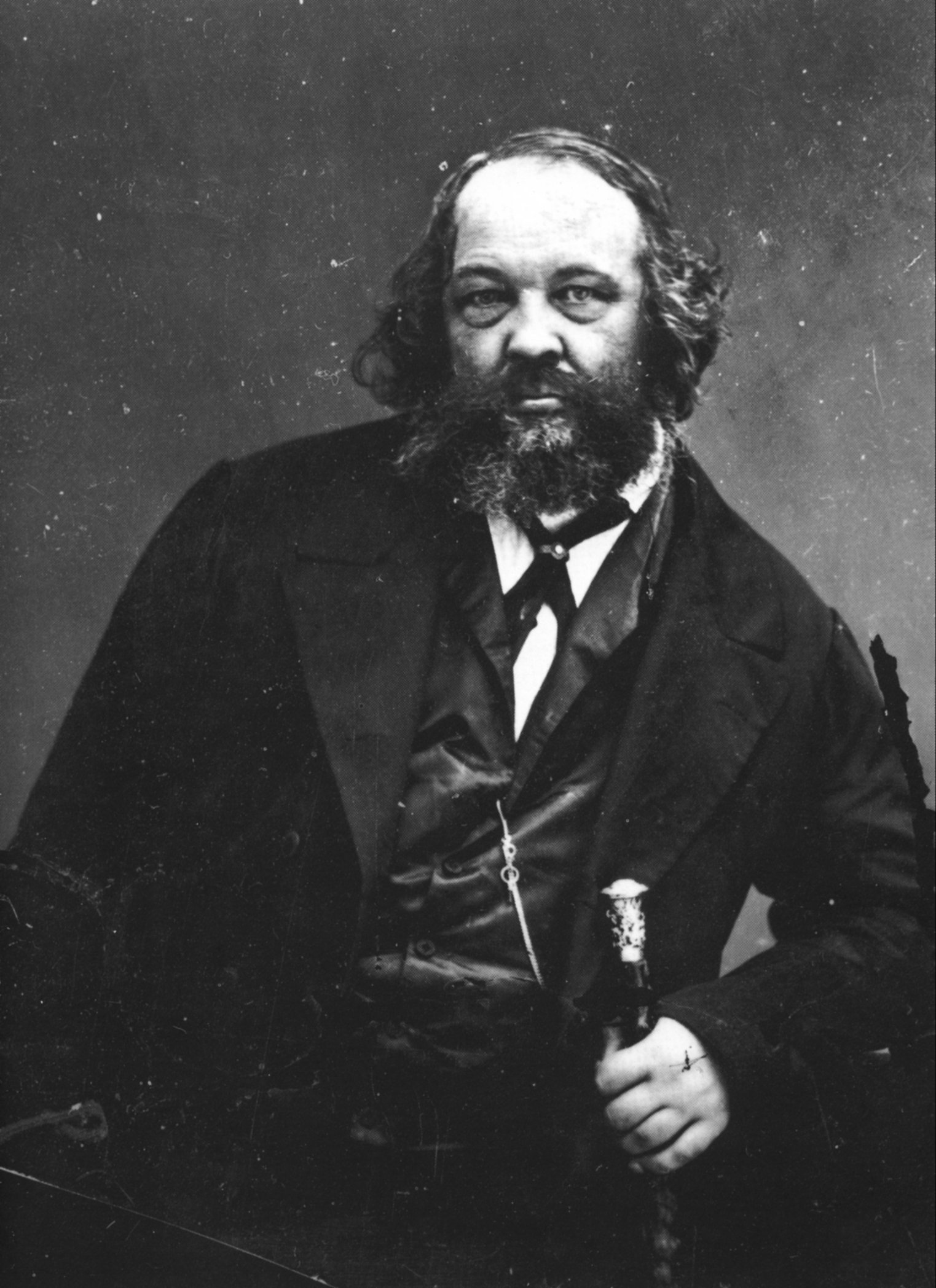 Photography of Mikhail Bakunin by Félix Nadar